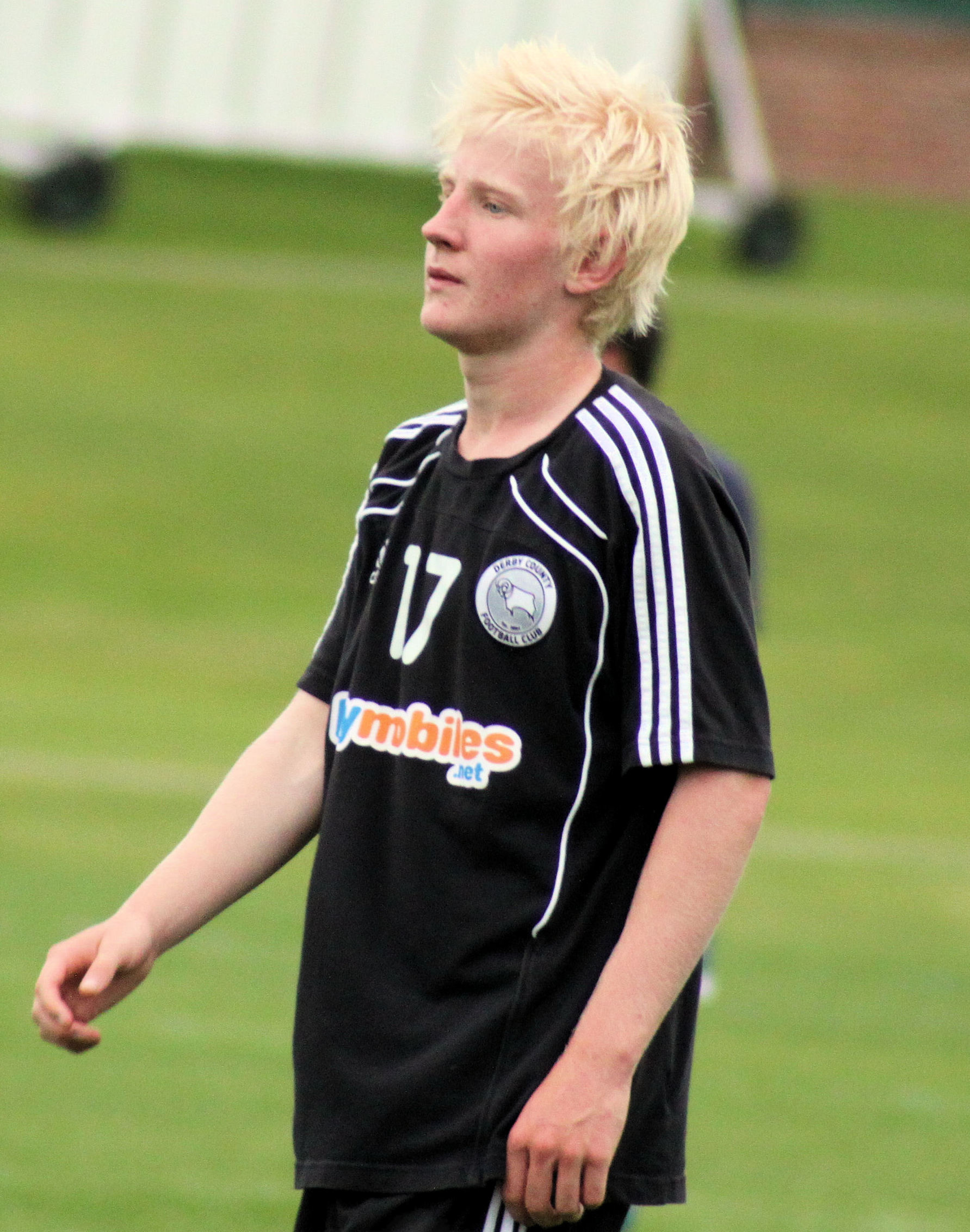 Matlock Town vs Derby County XI 26-07-11 052